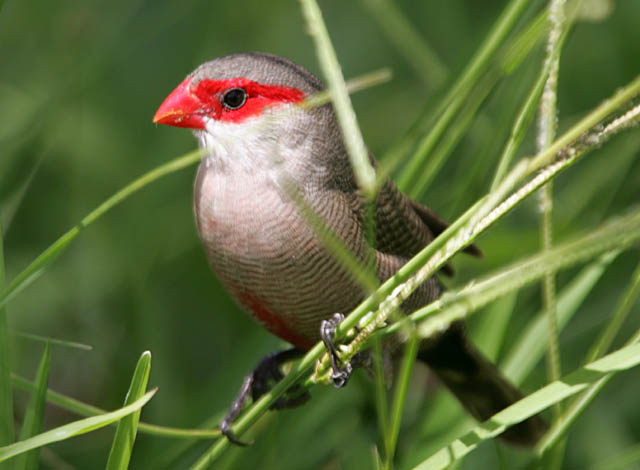 Common Waxbill (Estrilda astrild)